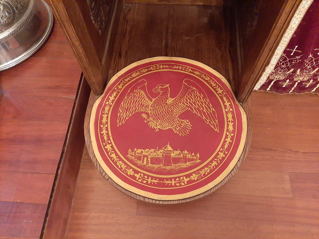 An orlets (eagle rug) in the Saint Sava Serbian Orthodox Church in Toronto.